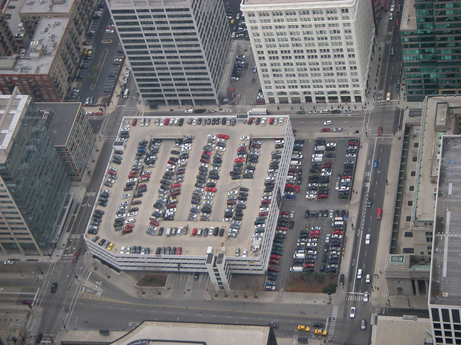 Parking complex (356 S. Canal St.) in Chicago, Illinois viewed from the Willis Tower